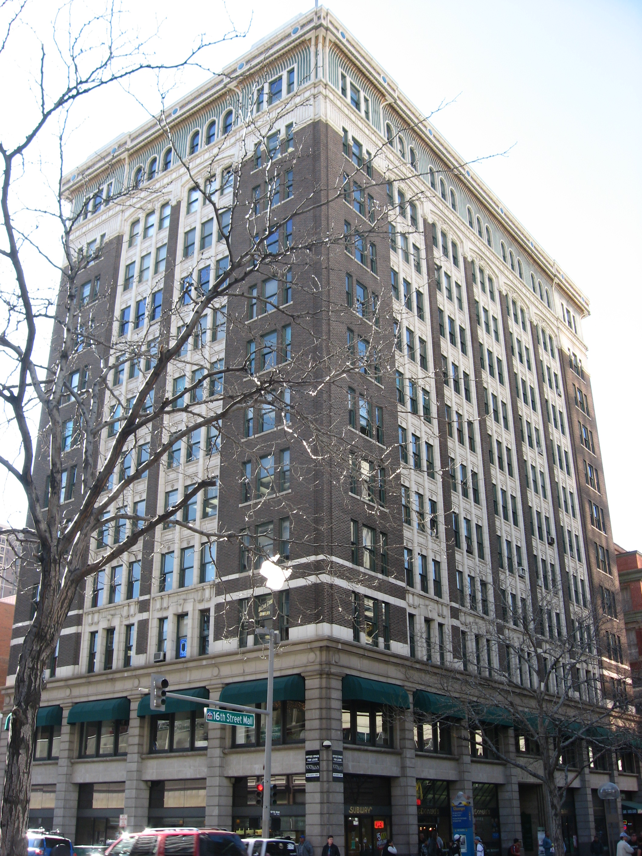 The A.C. Foster Building, located at the western corner of the intersection of Champa Street and the 16th Street Mall in Denver, Colorado, United States. Built in 1911, the building is listed on the National Register of Historic Places.